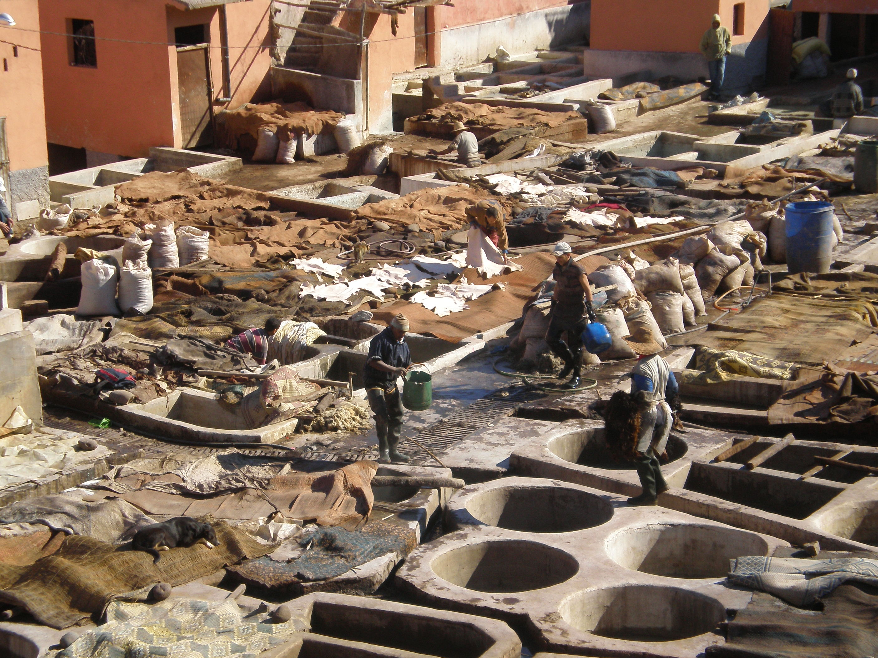 Tanneries. Marrakech, Morocco